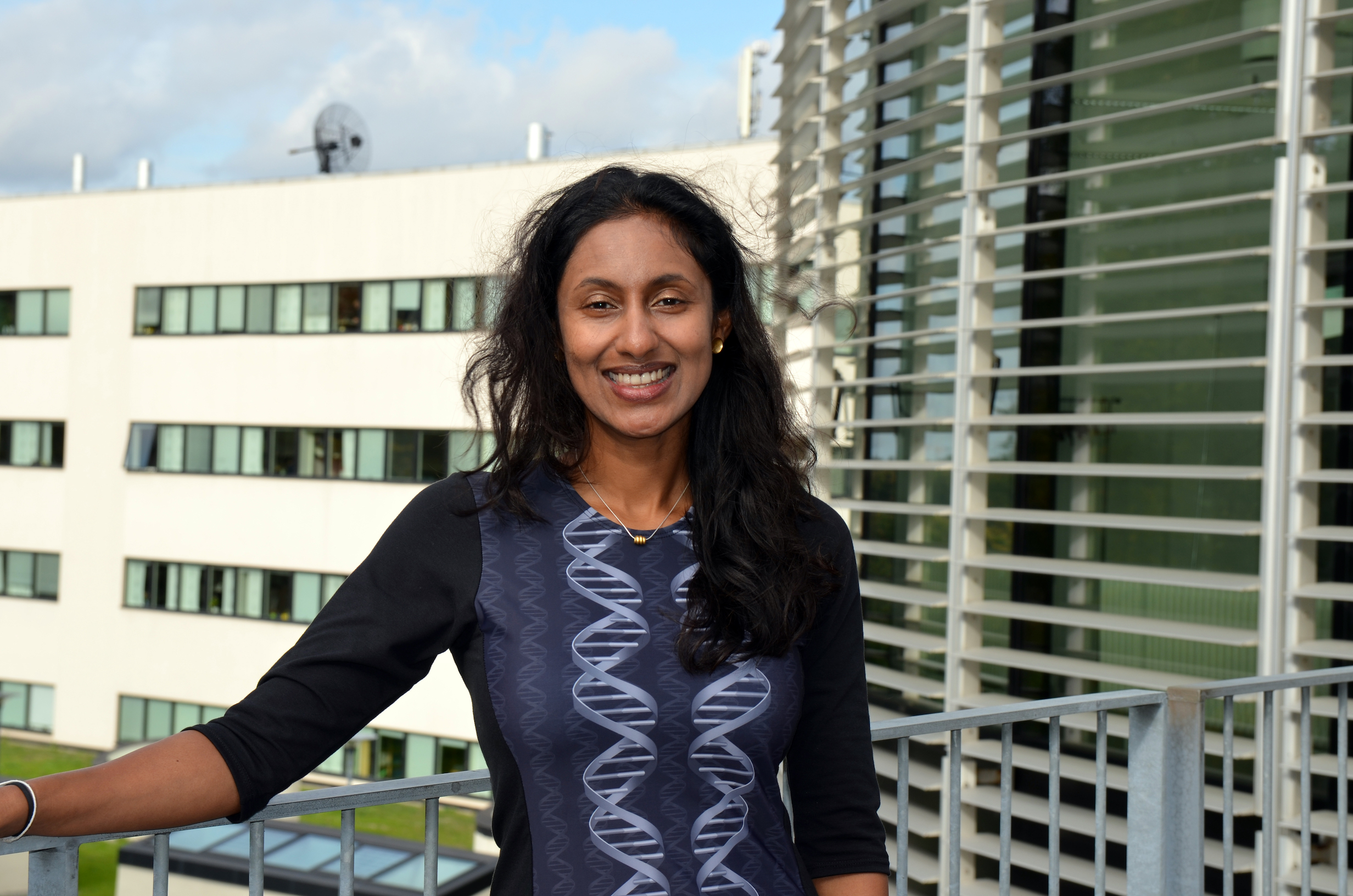 Dr. Hiranya Peiris standing outside the AlbaNova building in Stockholm Sweden